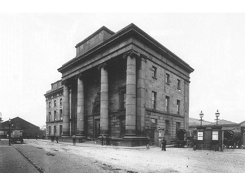 Photograph of Curzon Street Station, Birmingham, c.1913.